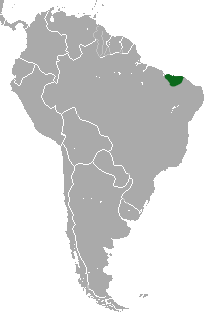 Maranhao Red-handed Howler (Alouatta ululata) range IUCN: Alouatta ululata Elliot, 1912 (old web site) (Endangered)